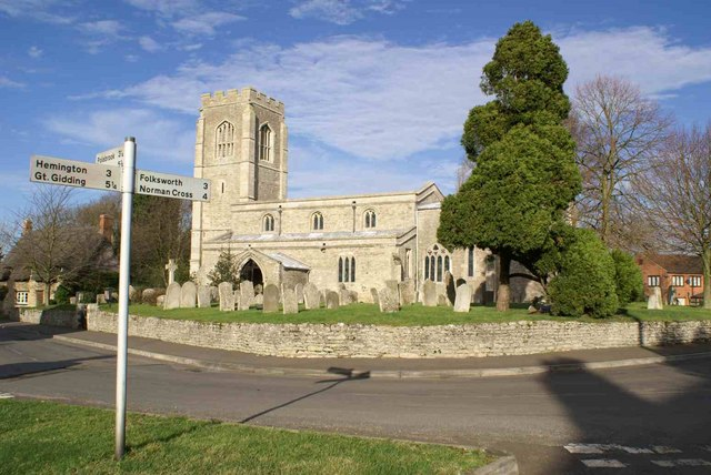 St Peter's parish church, Lutton, Northamptonshire, seen from the south